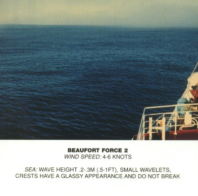 Beaufort scale 2 image